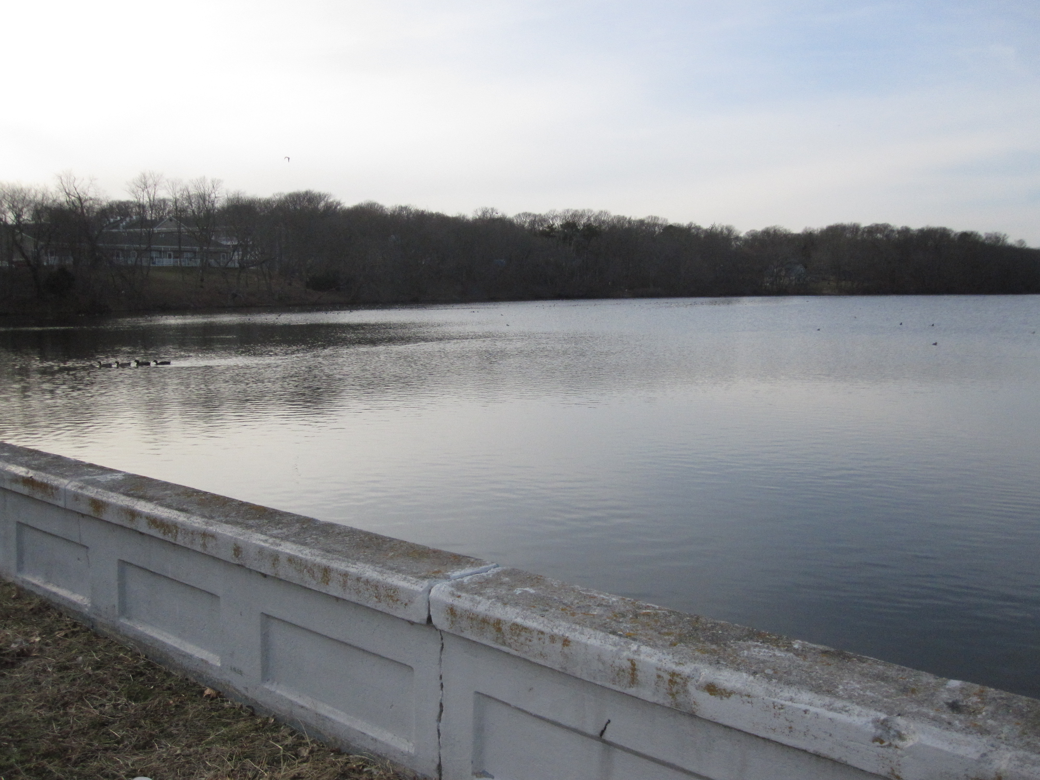 Forge River (Mastic-Moriches New York...Photo by Steve Van